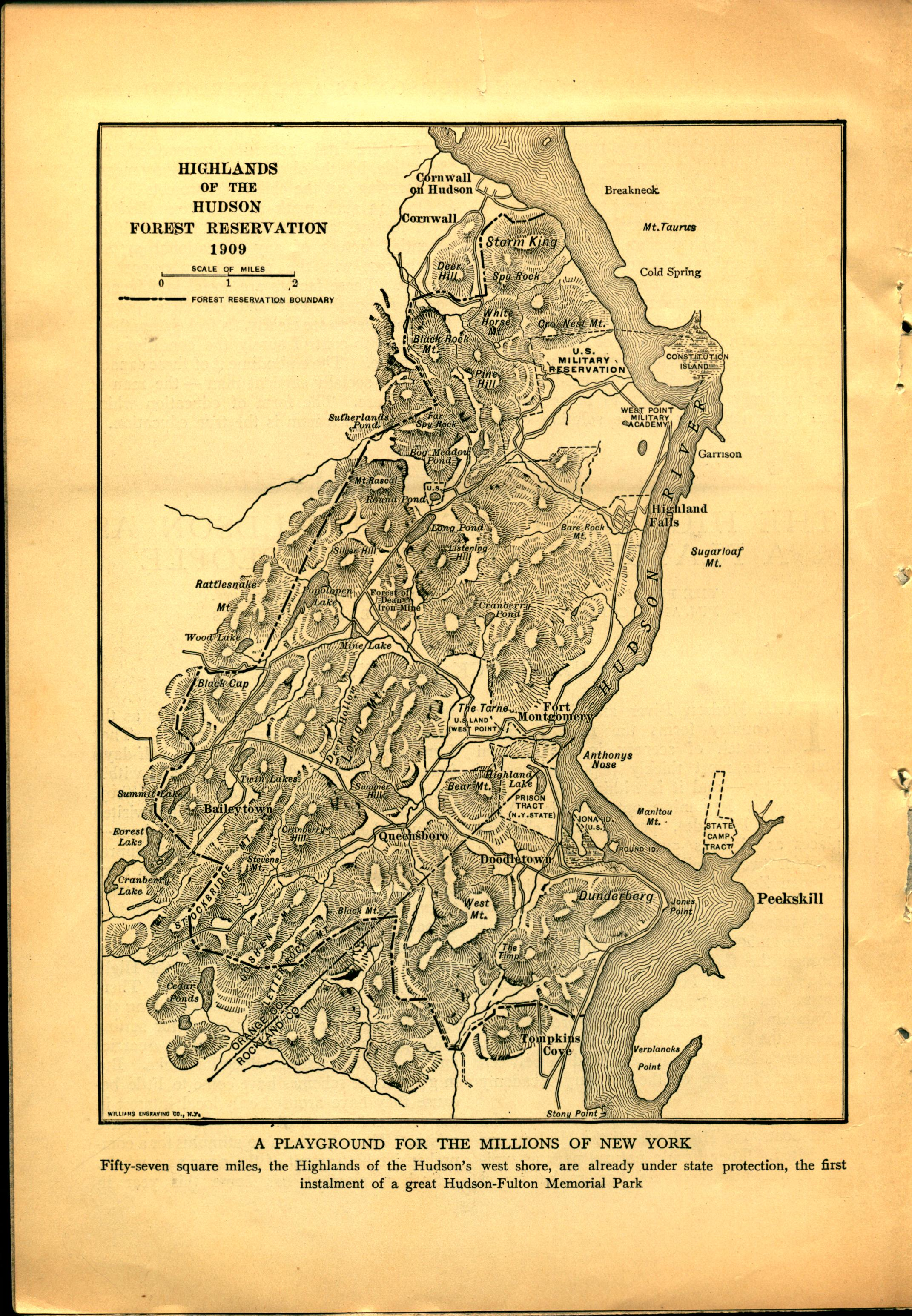 "A playground for the millions of New York. Fifty-seven square miles, the Highlands of the Hudson's west shore, are already under state protection, the first instalment [sic] of a great Hudson-Fulton Memorial Park" Read the article from which the image is taken here (Google Books).